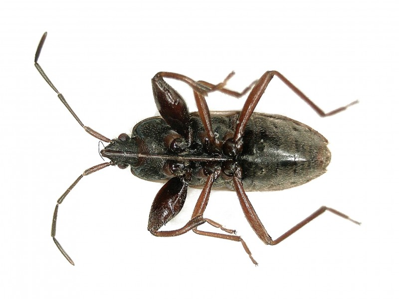 Eremocoris podagricus (Lygaeidae) - (imago), Arnhem - Schuytgraaf, the Netherlands